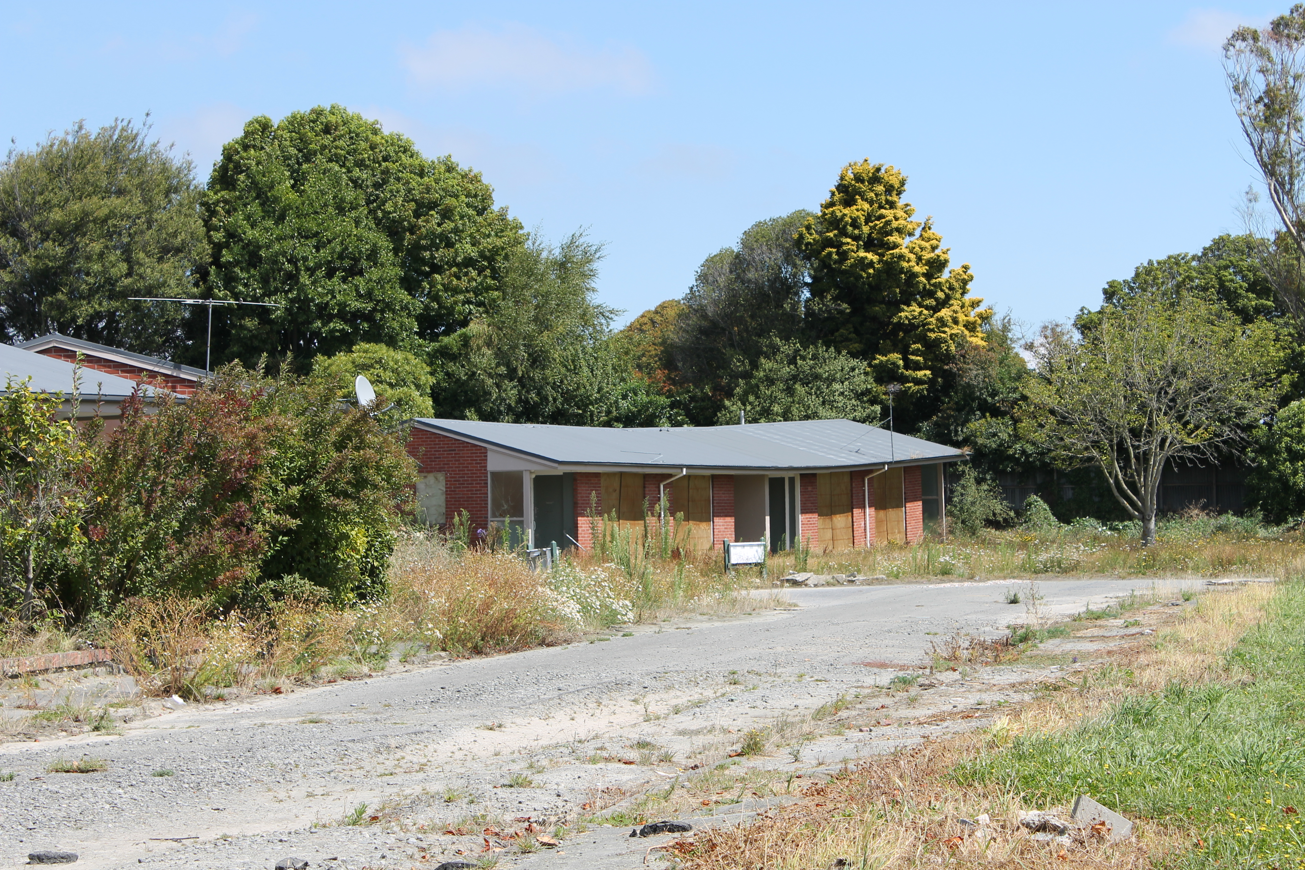 Bowie Place in Avonside, where Christchurch City Council had 32 social housing units. Note the sunken roof line.